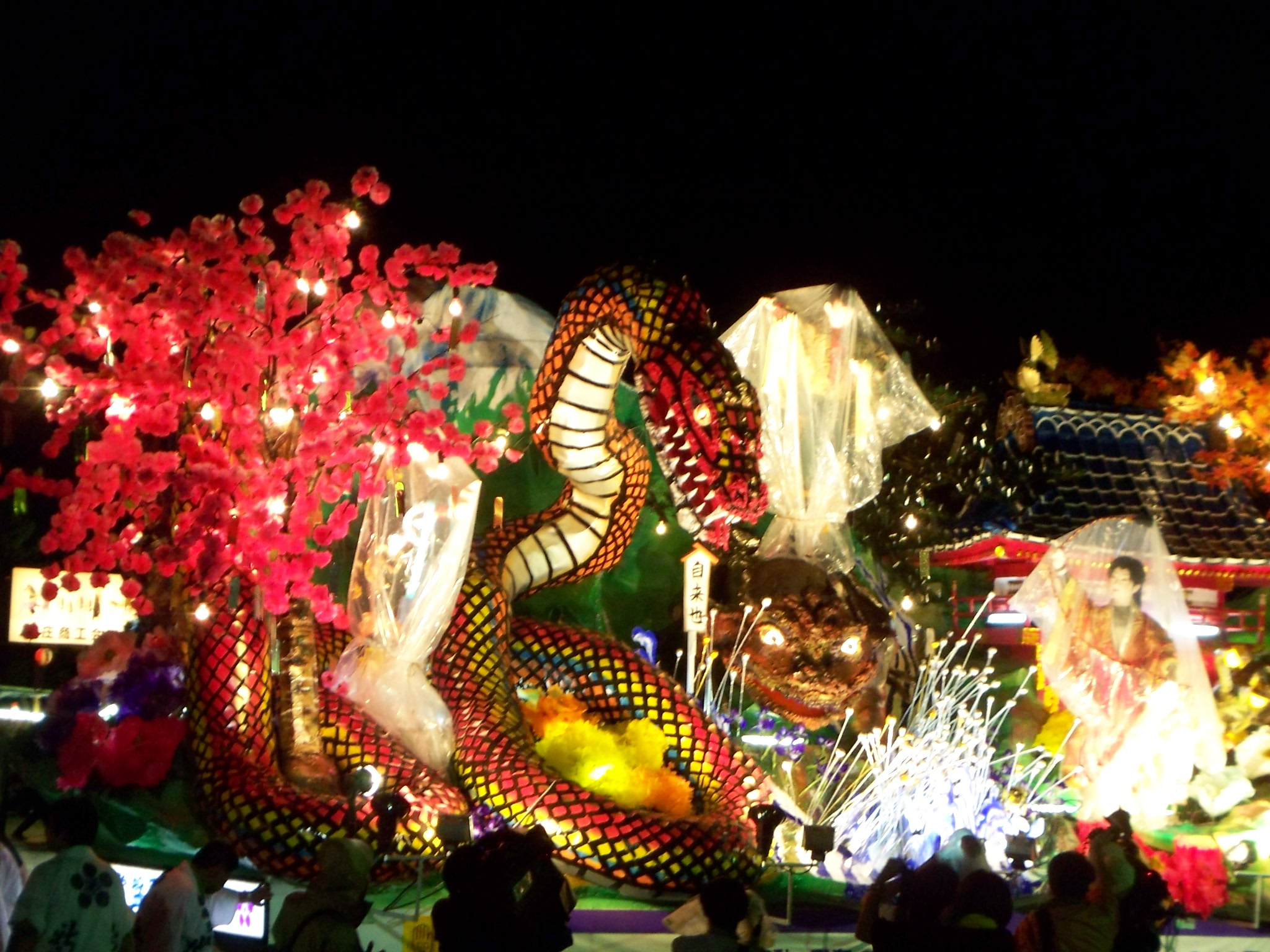 A float or yatai featured during the night portion of the Shinjo Matsuri in Shinjo, Yamagata Prefecture, Japan.